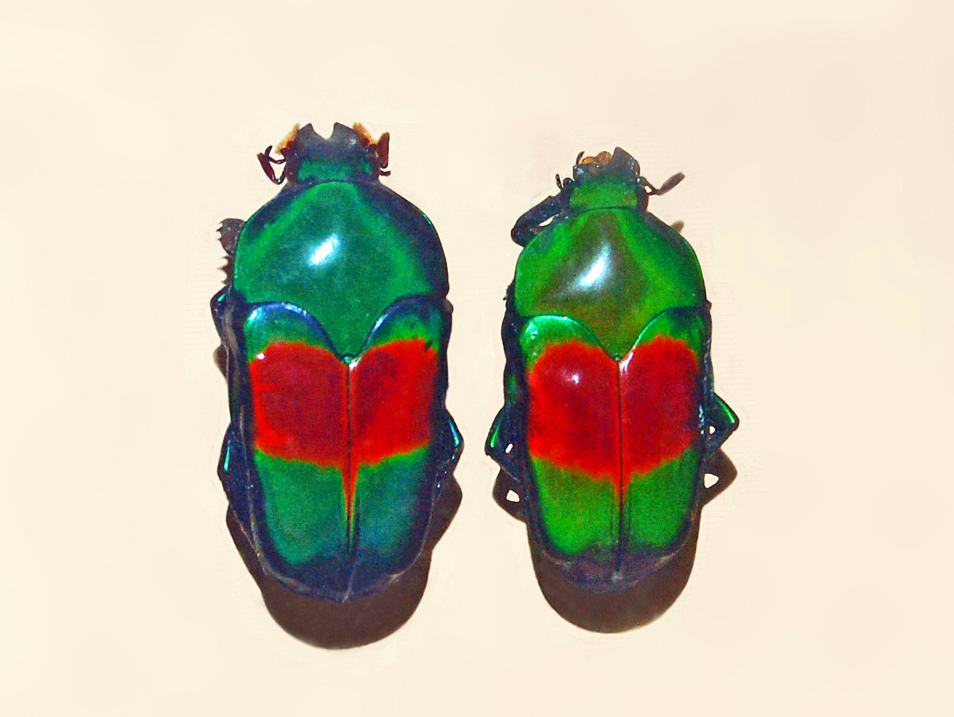 Ischiopsopha jamesi from New Guinea